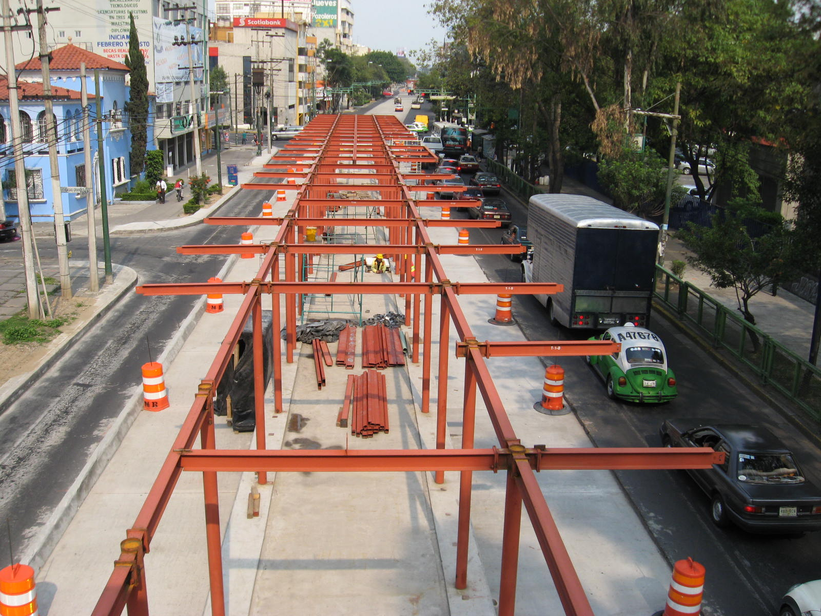 Metrobus station under construction near the intersection of Eje Central and Eje 4 Sur (Xola) in Mexico City. Completed in 2009, called "Station SCOP"